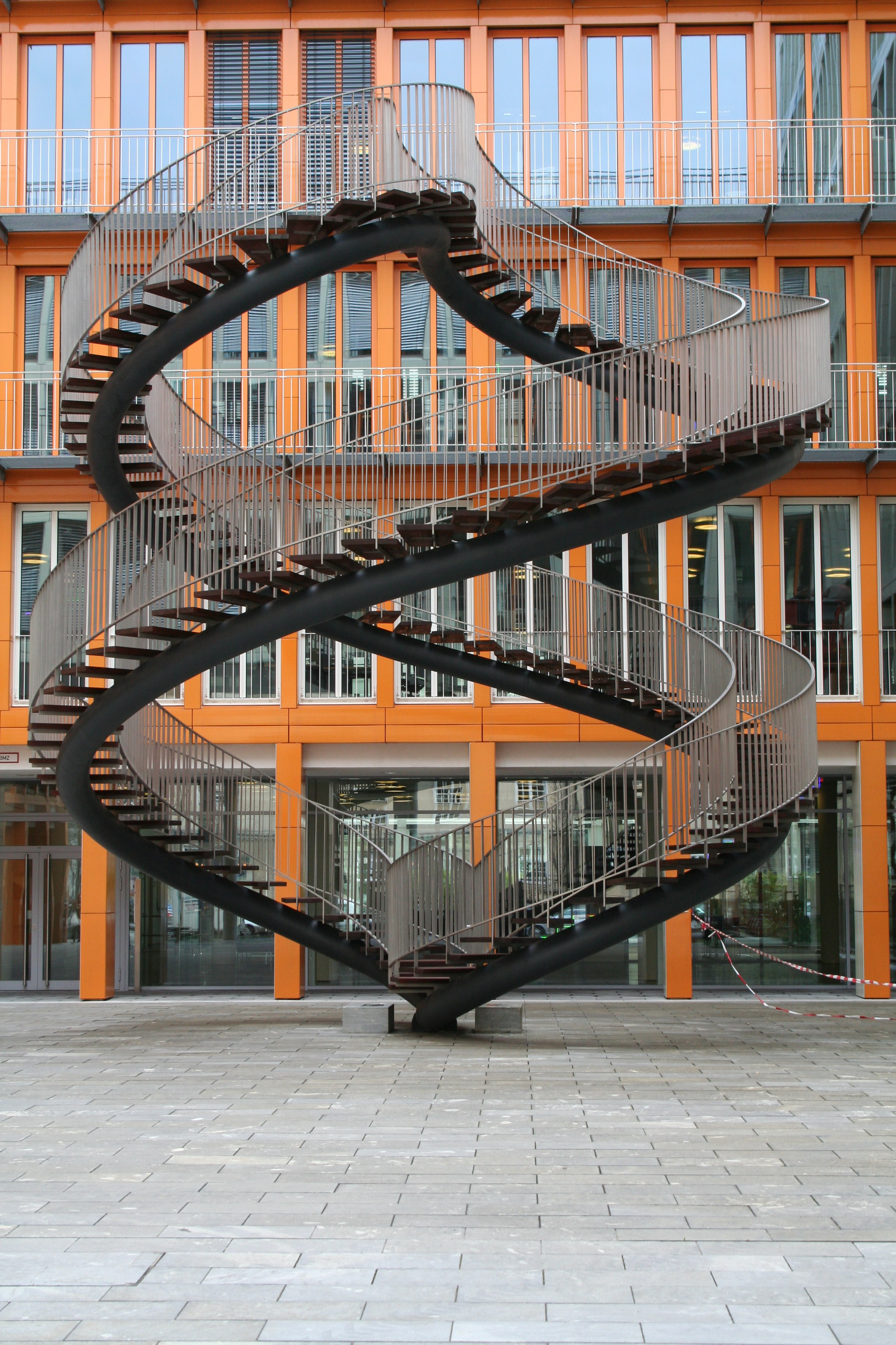 "Umschreibung" (~ circumscription), by Olafur Eliasson, 2004, Munich, Germany. Build for the German headquarters of KPMG